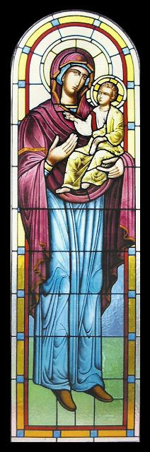 Ioan Cadar MARIA CU PRUNCUL vitraliu religios